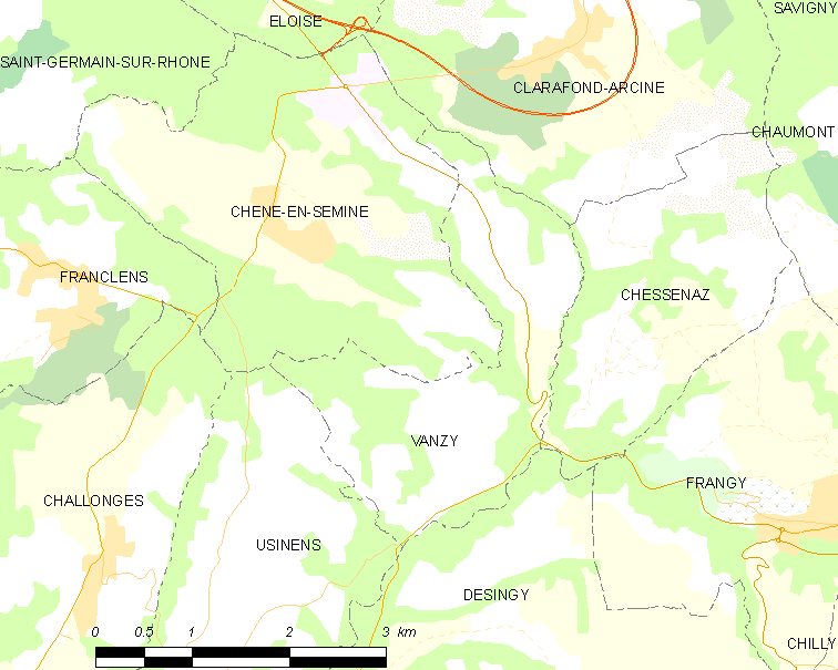 Map of French municipality Vanzy